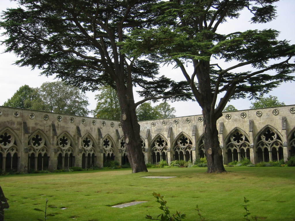 Salisbury cathidral back